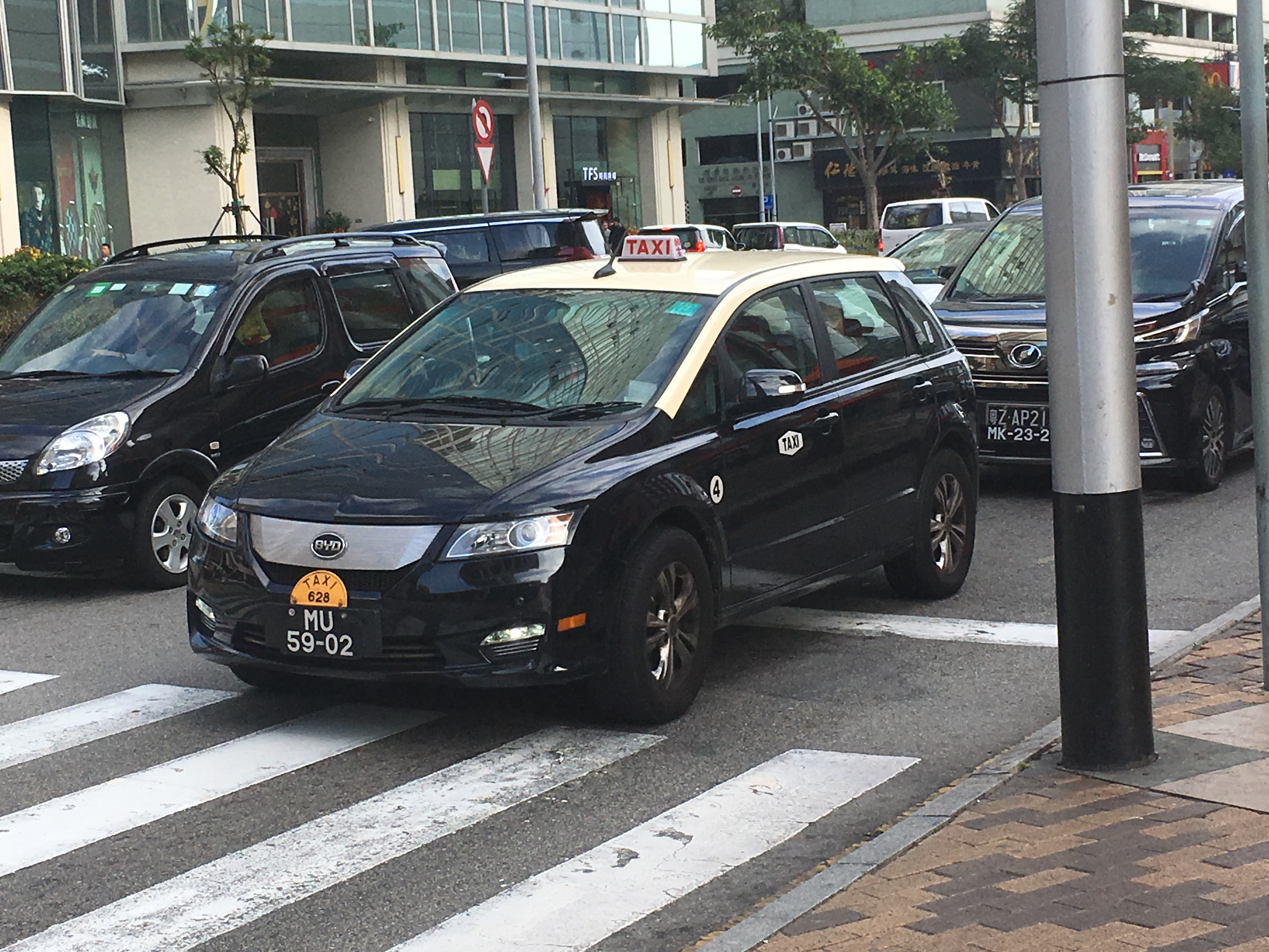 中文（香港）: This photo is taken in 24th June Square.